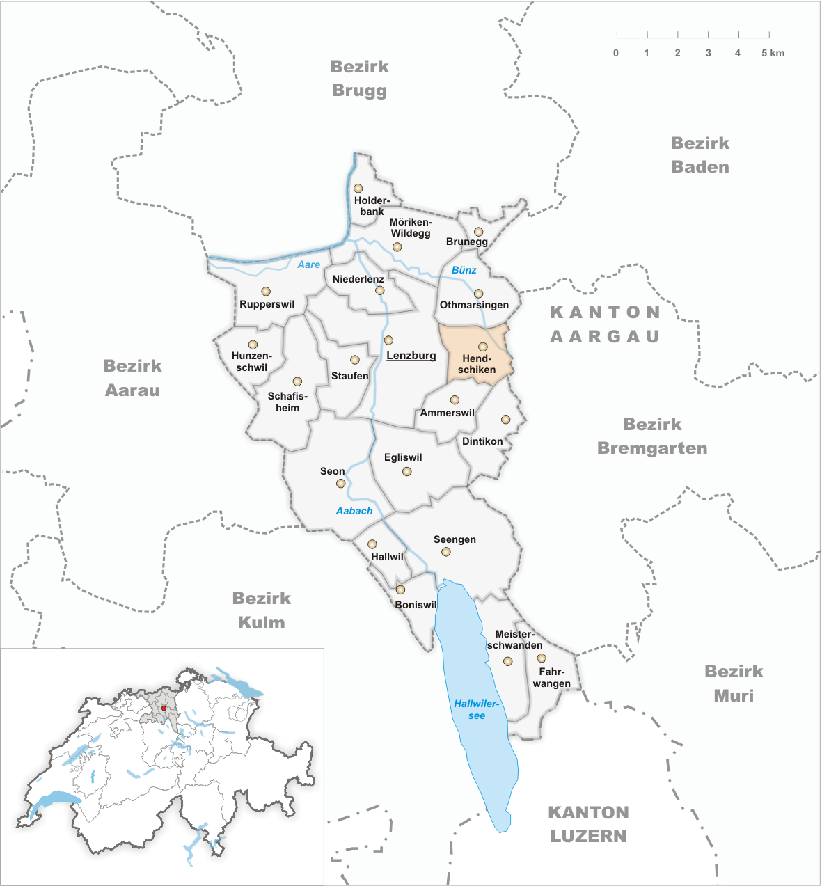 Municipality Hendschiken